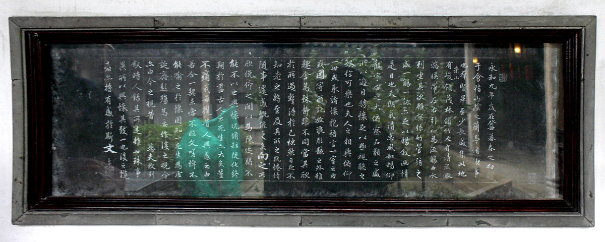 Yuan painter Zhao Mengfu(1254-1322) caligraphed tablet ofPreface to Lanting Poem